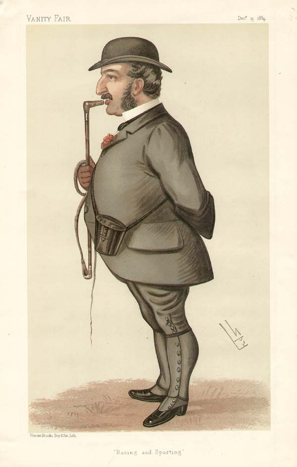 Men of the Day No.320: Caricature of Leopold de Rothschild (1845-1917). Caption reads: "Racing and Sporting"